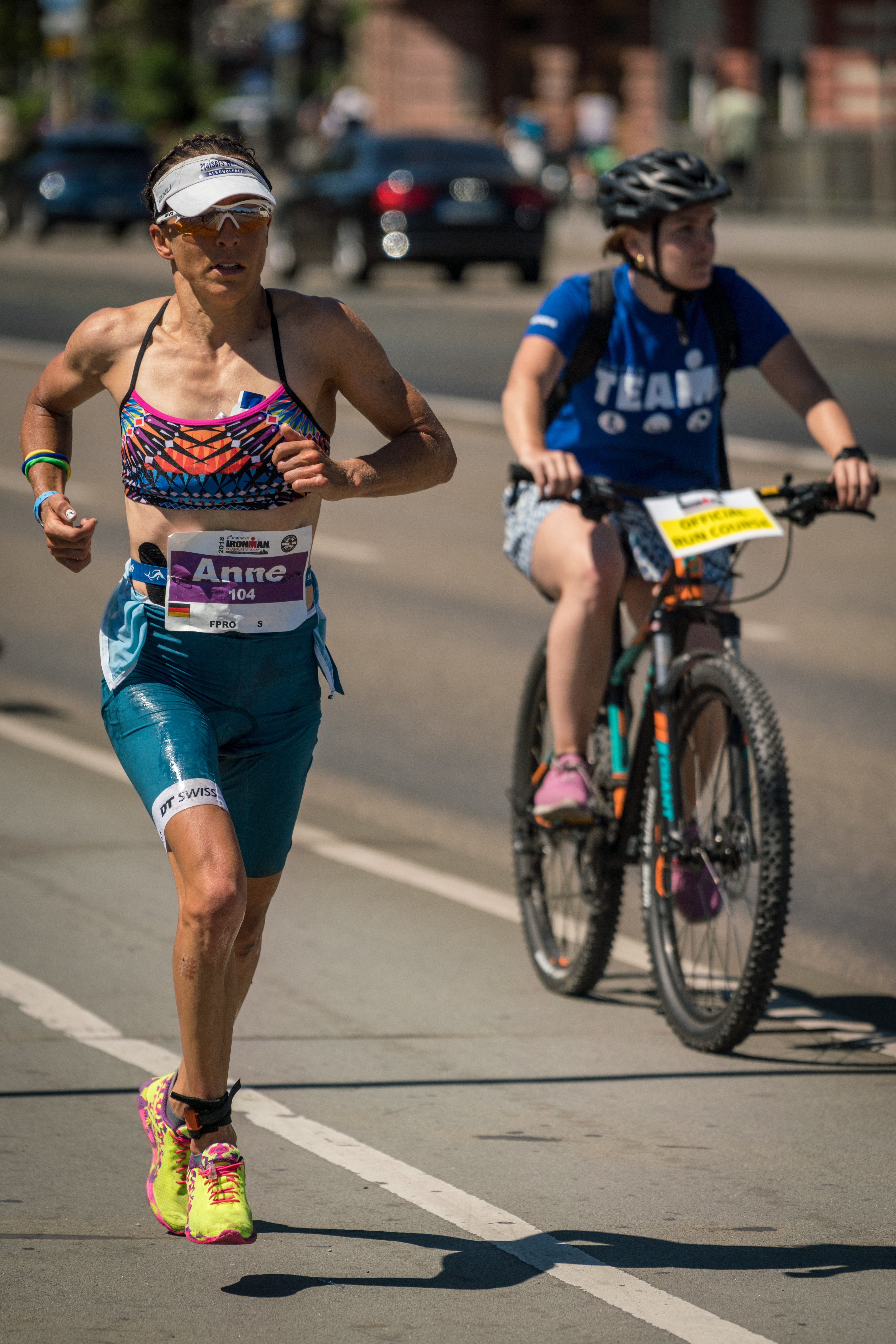 Fourth female Anne Haug at the 2018 Ironman European Championship in Frankfurt am Main (Germany).